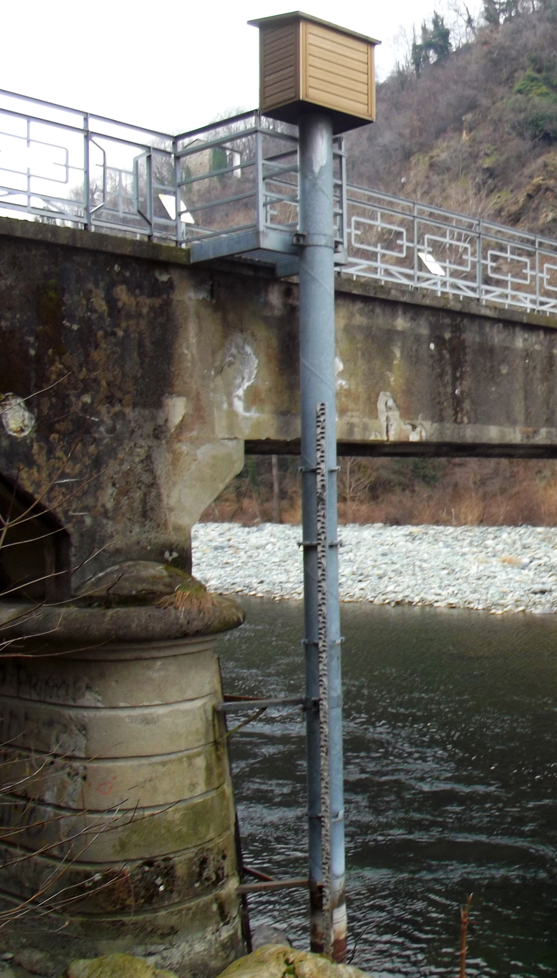 Stream gauging on Stura di Lanzo (Lanzo Torinese, TO, Italy)